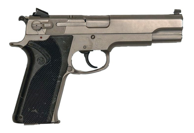 Picture of Smith & Wesson Make: SW4506-1 Caliber: .45 Cal ACP